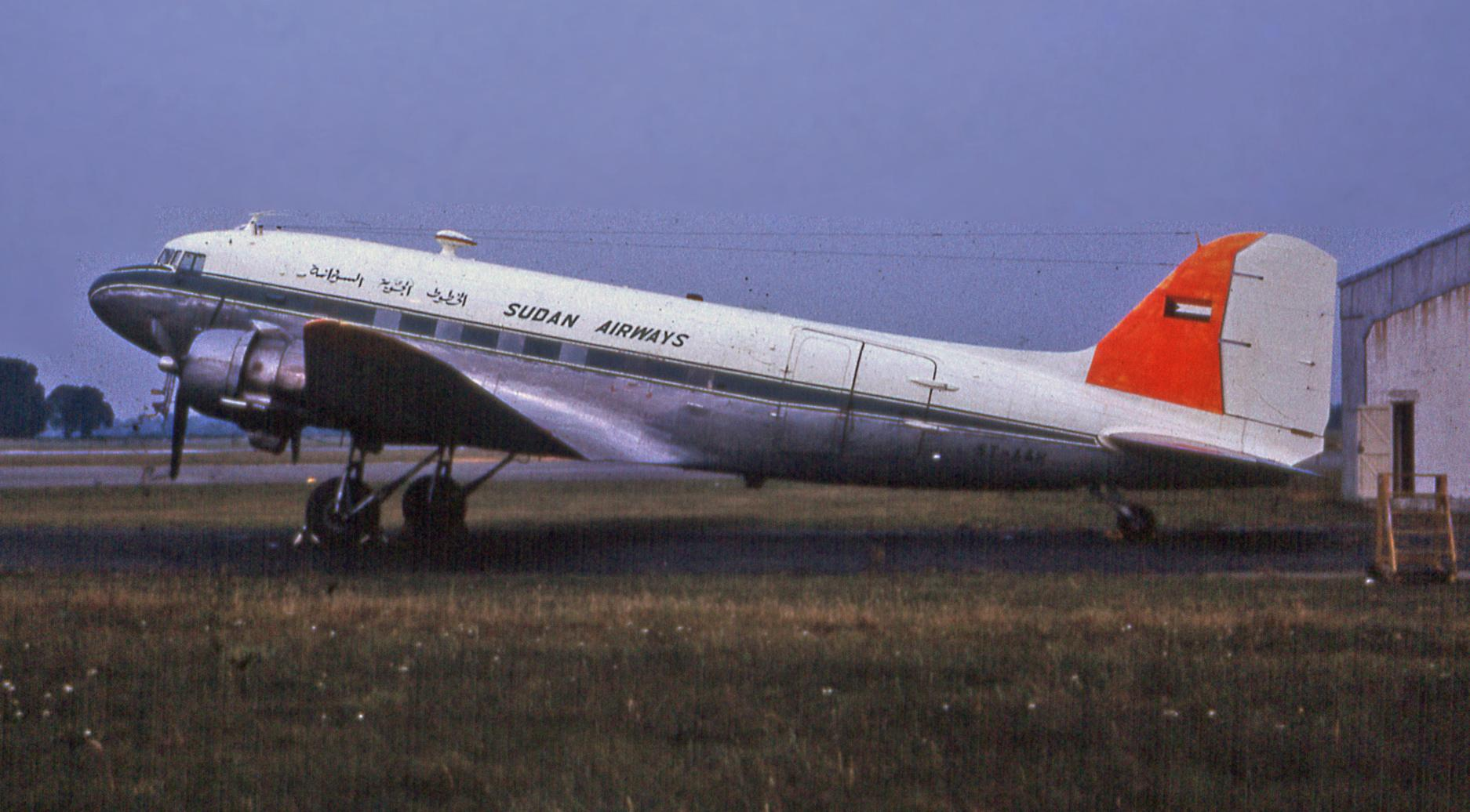 MSN 26969 Built 1944. To RAF. RAF 1944-1957 1957 to Aiwork and then Sudan Airways ST-AAM Crashed Khartoum 21 Feb. 1967